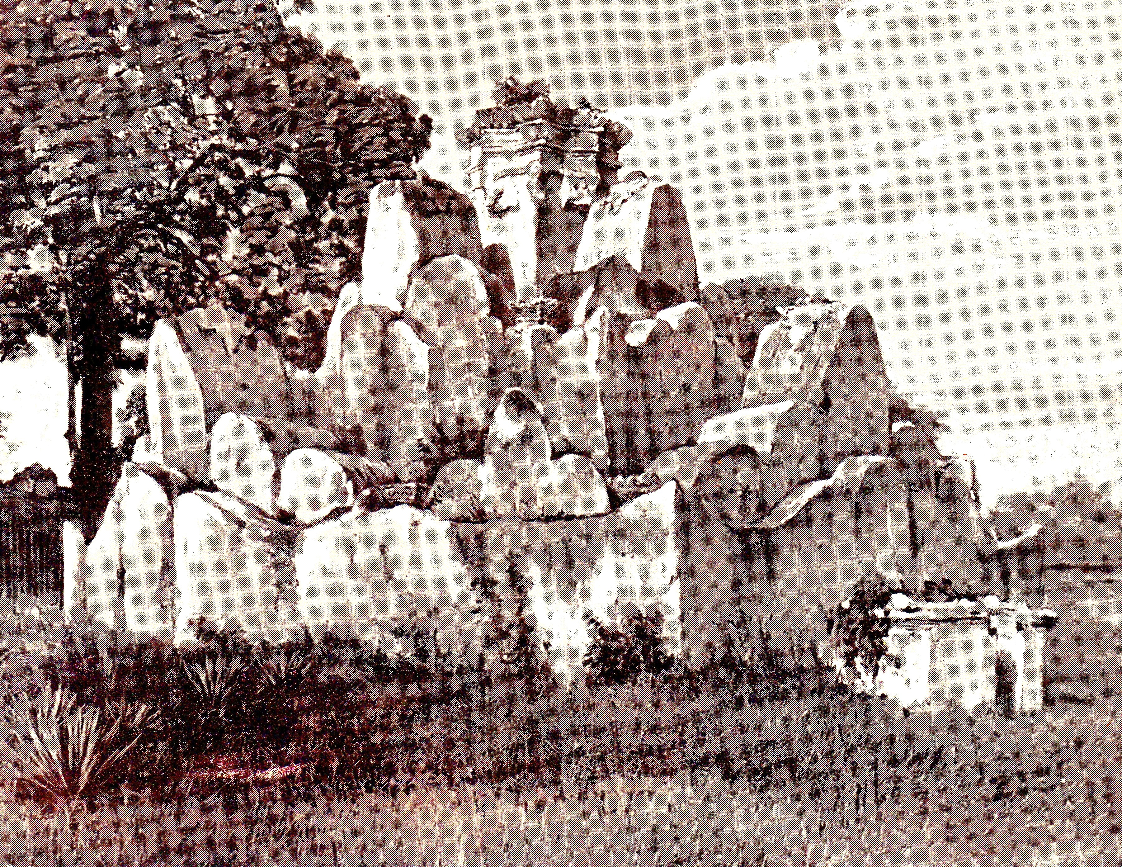 De Taman of lotusbloem nabij Kota Goenongan (Atjeh)